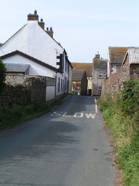 Allonby, from the east. This country road enters the village from Westnewton. Except for the modern roadsigns this view will have changed little for many years.